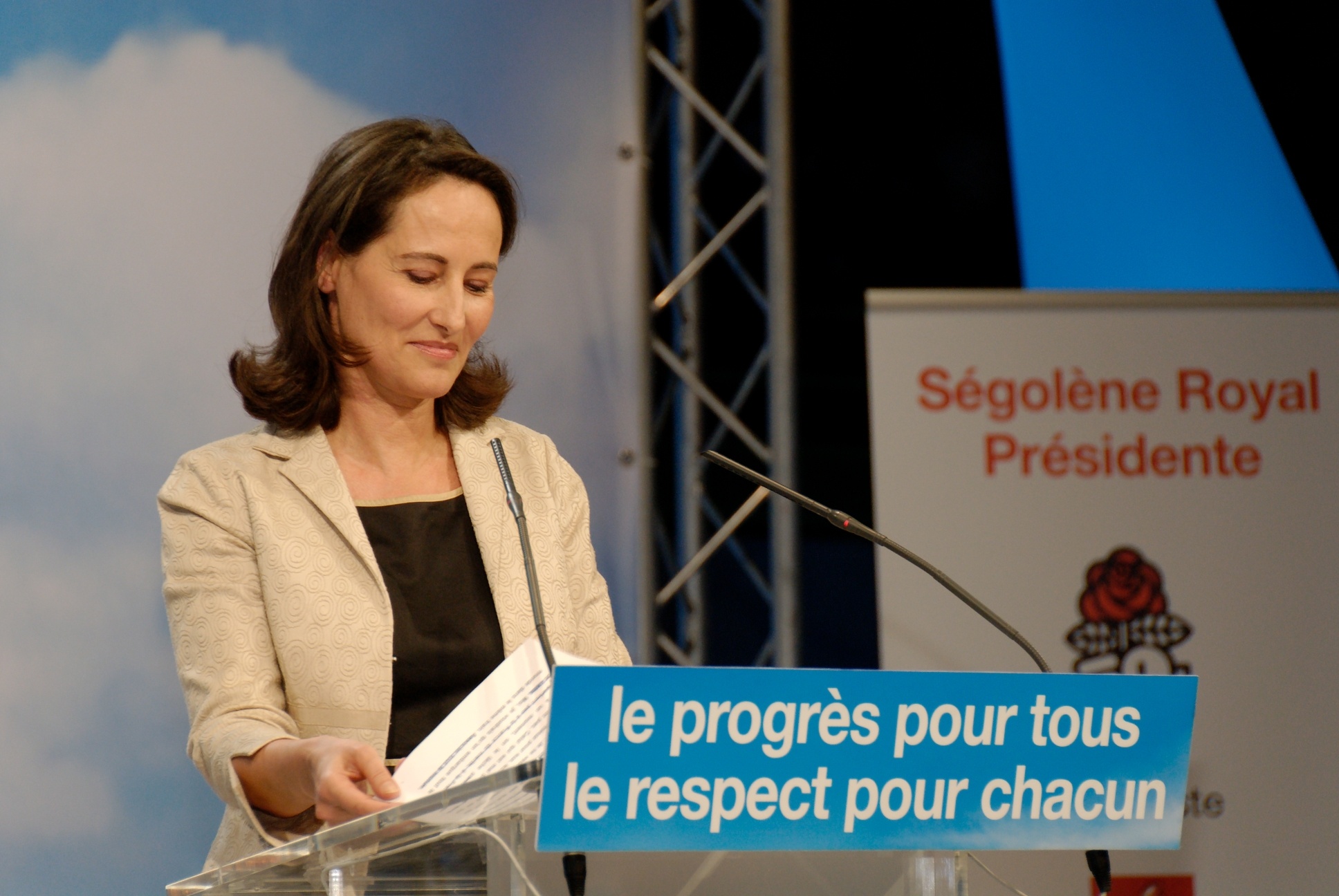 Ségolène Royal at a meeting held on Feb. 6, 2007 by the French Socialist Party at the Carpentier Hall in Paris.